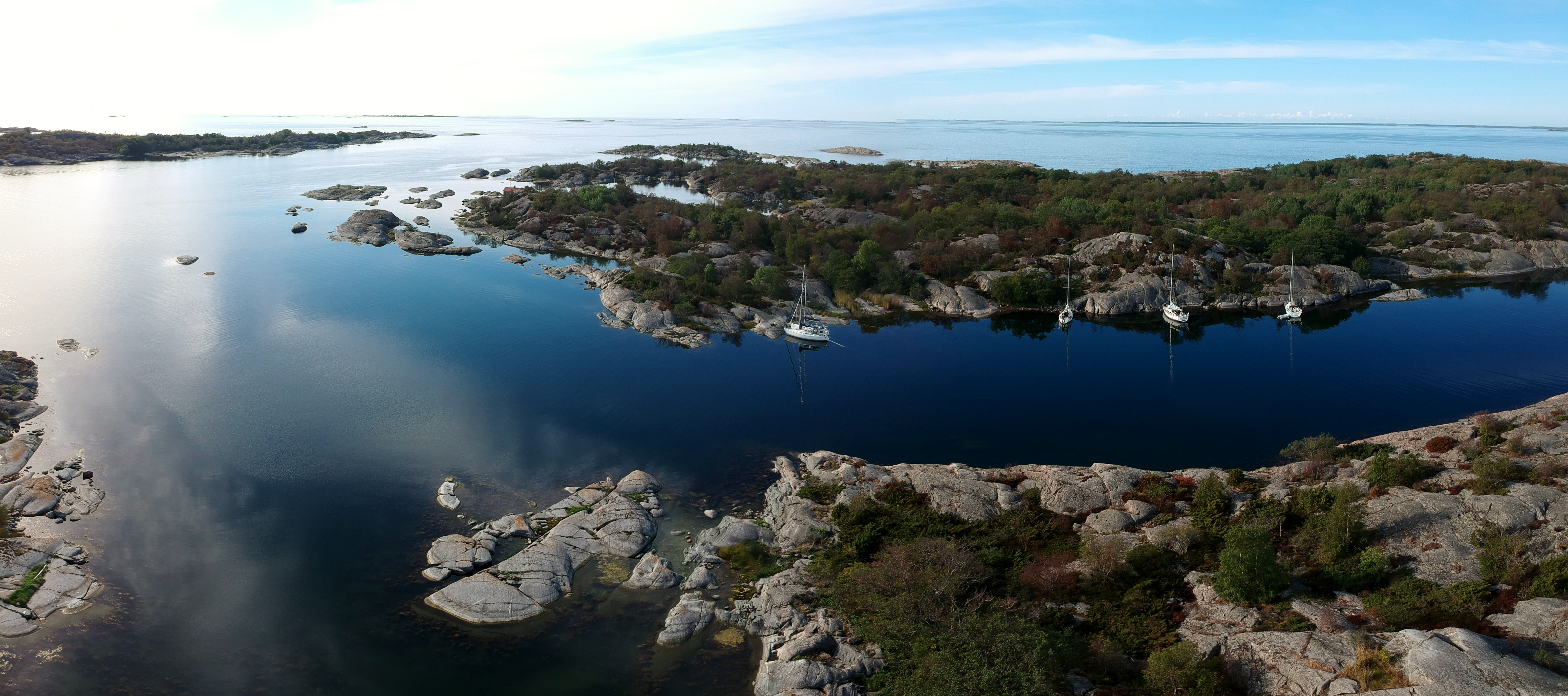 Drone photo of Björkskär from north